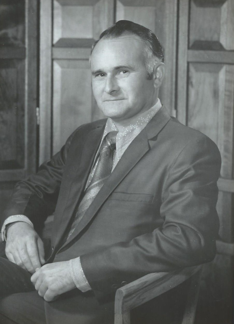 Warren Church Portrait